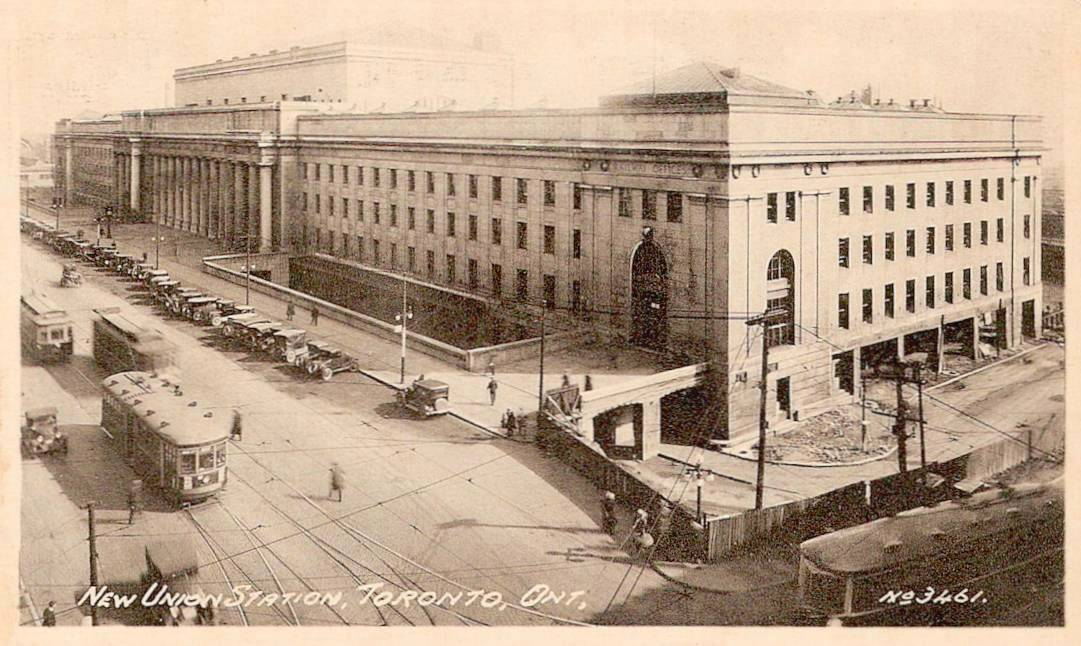 Postcard of the new Union Station, in 1927, with Peter Witt Streetcars out front.